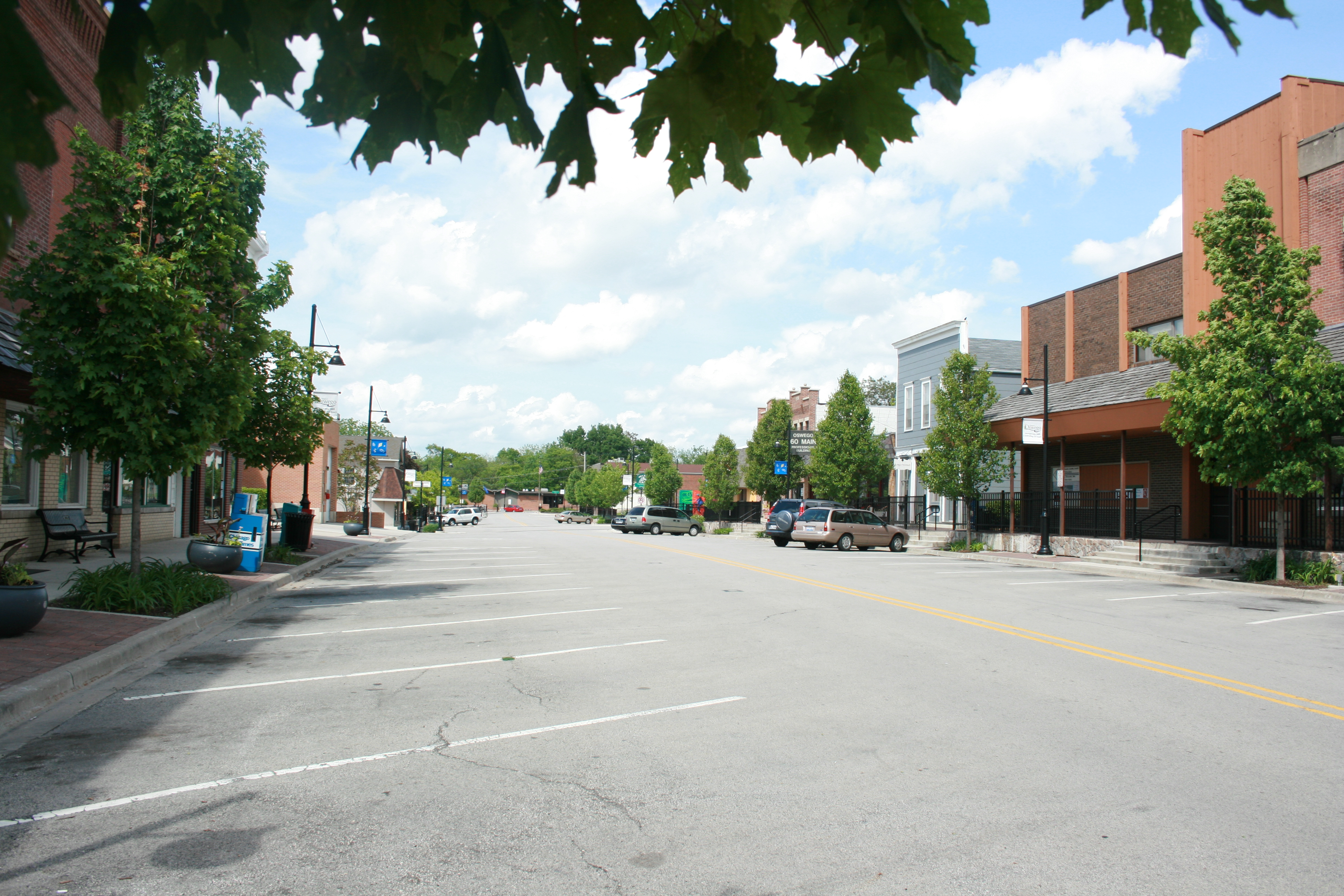 Oswego, Illinois - downtown business district